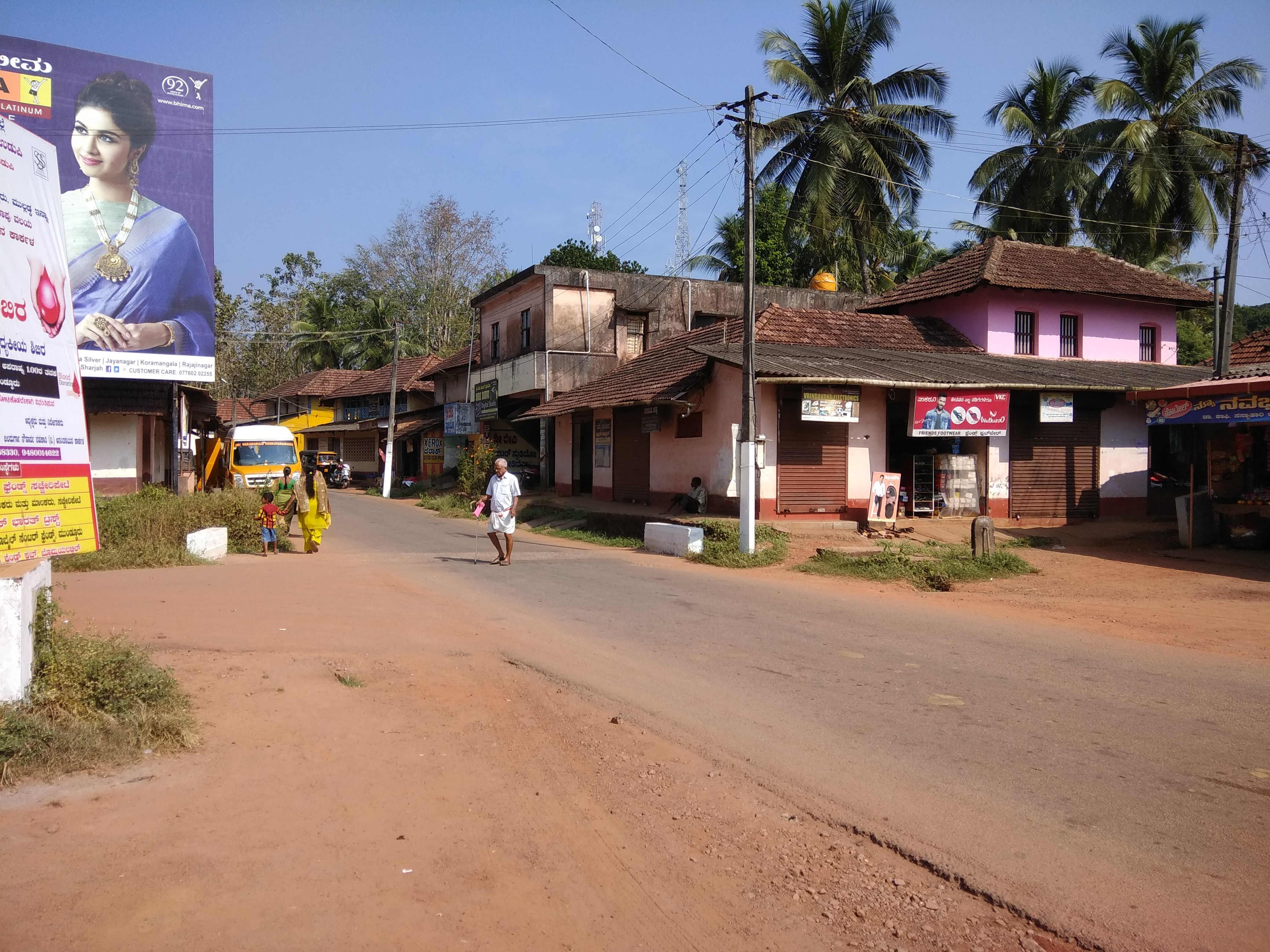 Mundkur. near Shri Durga Parameshwari Temple, Mundkur, Udupi district, Karnataka, India ಕನ್ನಡ: ಮುಂಡ್ಕೂರು, ರಥ ಬೀದಿ, ಶ್ರೀ ದುರ್ಗಾ ಪರಮೇಶ್ವರಿ ದೇವಸ್ಥಾನ, ಮುಂಡ್ಕೂರು, ಉಡುಪಿ ಜಿಲ್ಲೆ, ಕರ್ನಾಟಕ, ಭಾರತ.